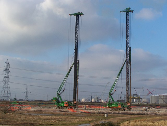 Piling Machines in Works, near Grain Power Station Large drilling machines, making a foundation for Britned Development Ltd Interconnector. This is a joint venture between National Grid and TenneT (the Dutch power grid operator). This project is part financed by the European Union from the trans-European transport networks budget. This Interconnector will be a start of a powerline across the English channel to Holland. For more details